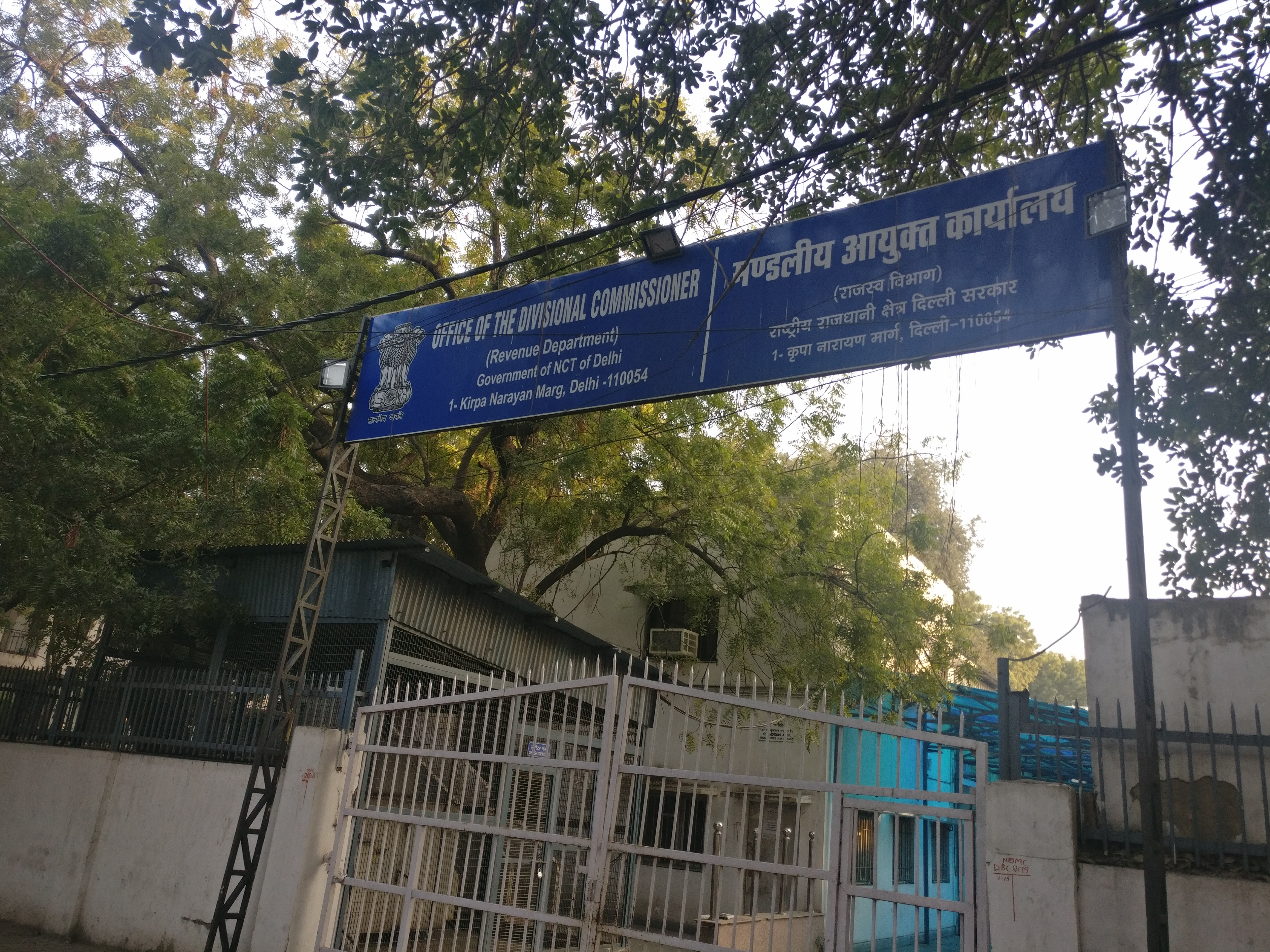 Office of Divisional Commissioner of GNCTD.